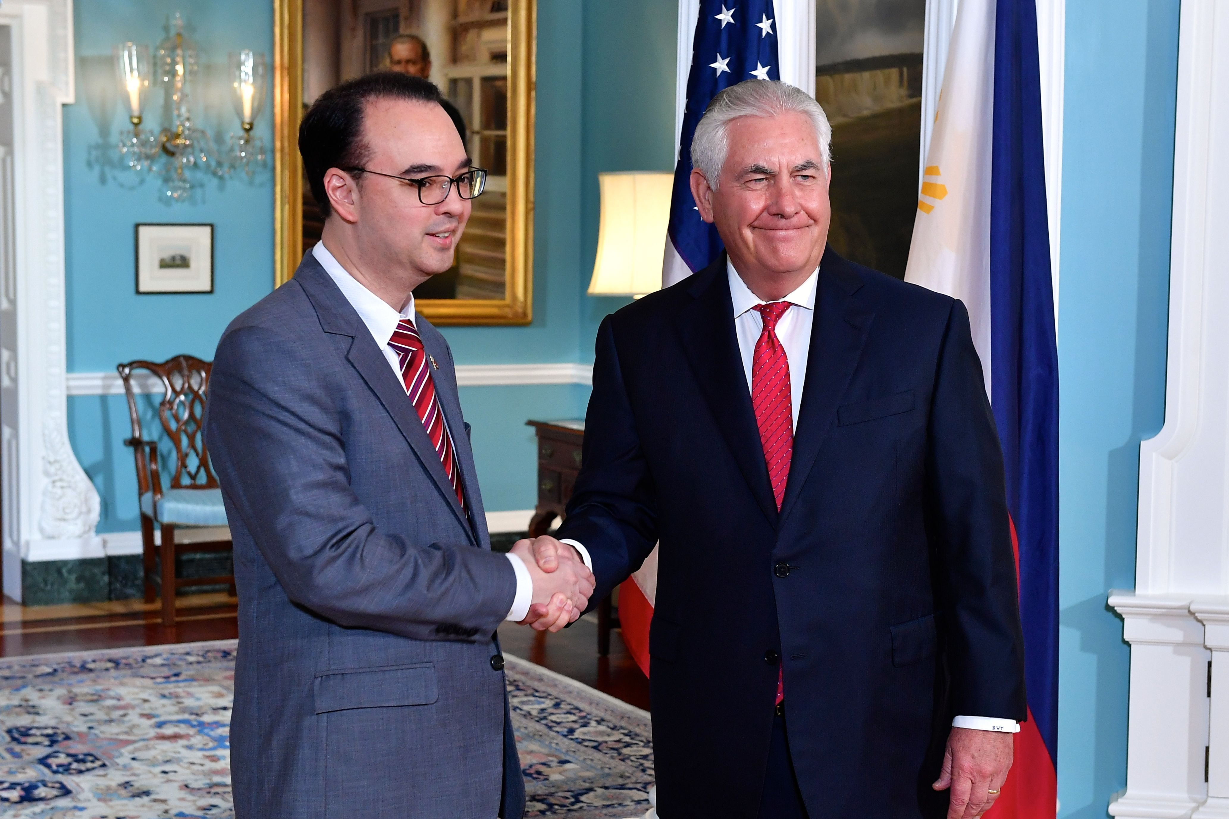 U.S. Secretary of State Rex Tillerson meets with Filipino Foreign Affairs Secretary Alan Peter Cayetano before their meeting at the U.S. Department of State in Washington, D.C. on September 27, 2017. [State Department Photo/ Public Domain]